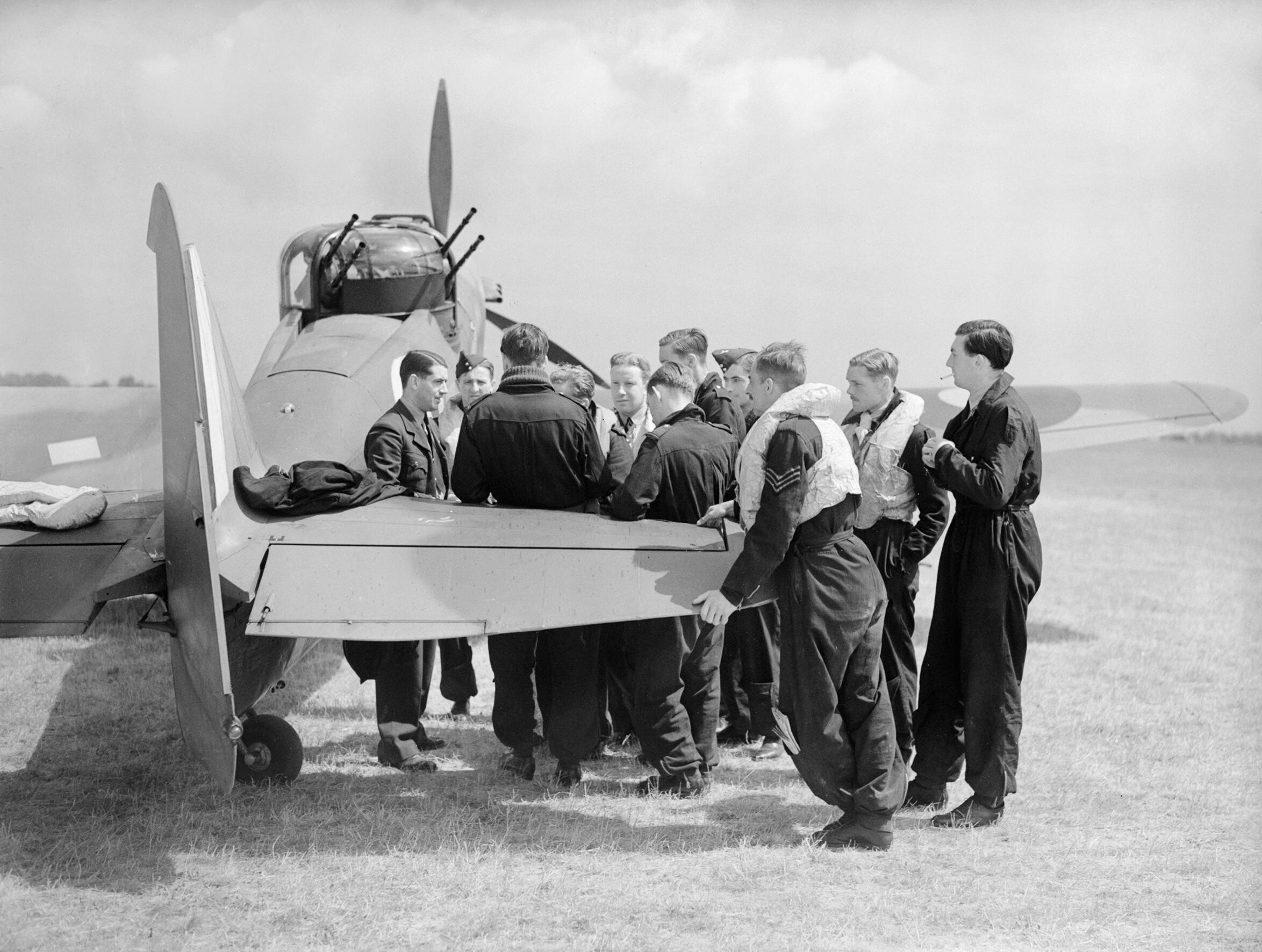 Squadron Leader P A Hunter (far left), the CO of No. 264 Squadron RAF, briefs his pilots by one of the Squadron's Boulton-Paul Defiants at Duxford, 31 May 1940. Squadron Leader P A Hunter (far left), the Commanding Officer of No. 264 Squadron RAF, briefs his pilots by a Boulton-Paul Defiant Mark I of the Squadron at Duxford, Cambridgeshire.